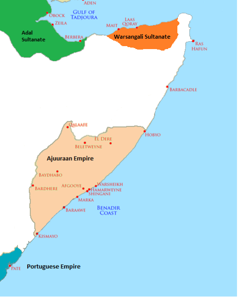 The Ajuuraan Empire in the 15th century and neighbouring states.